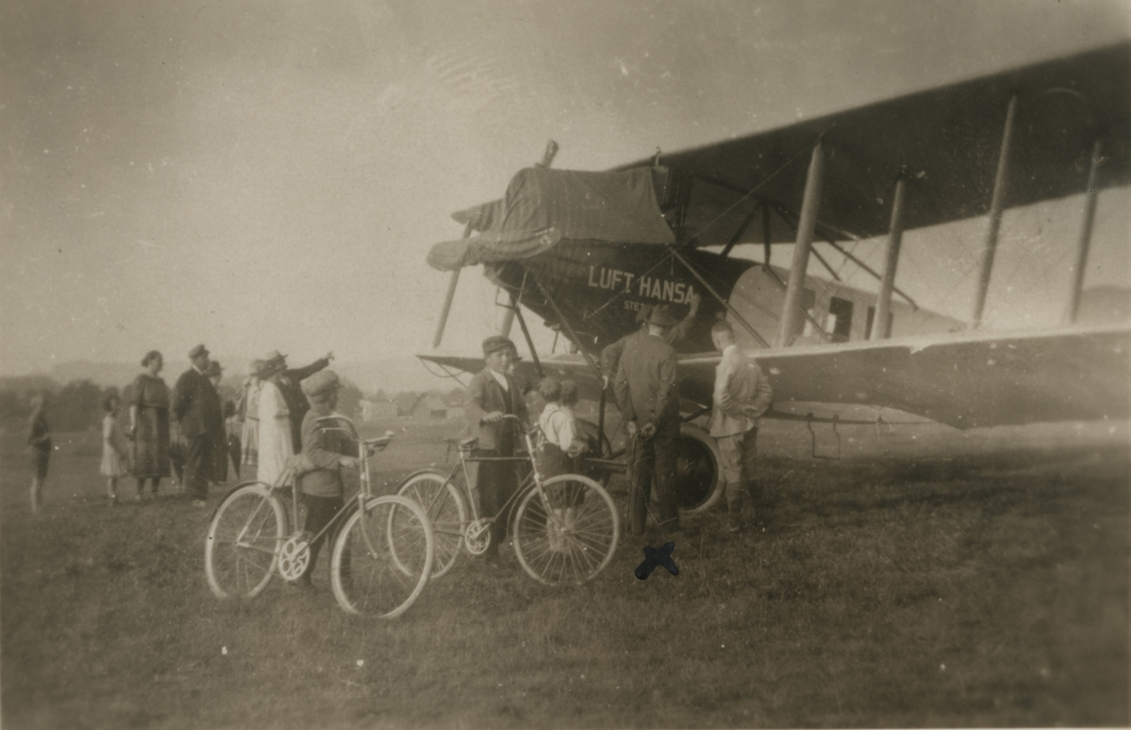 Felix Frank (Eveline von Maydell's brother, born 1891) and boys with bicycles looking at a Luft Hansa LFG V 130